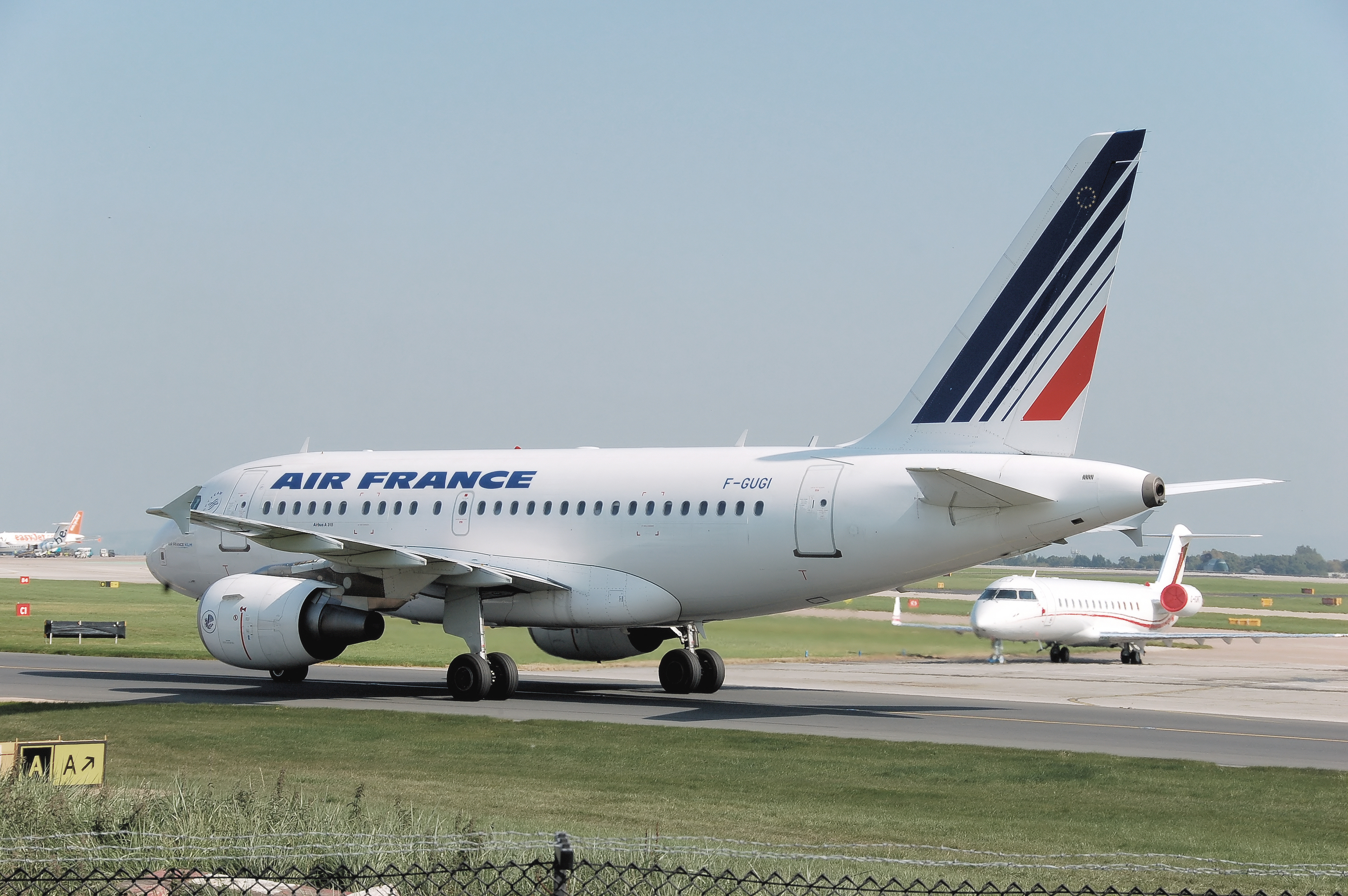 Air France Airbus A318-100 (F-GUGI) taxiing after landing at Manchester Airport, England.